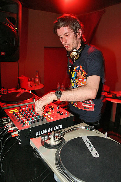 Kavinsky at The Academy Gallery in Montreal, 2007